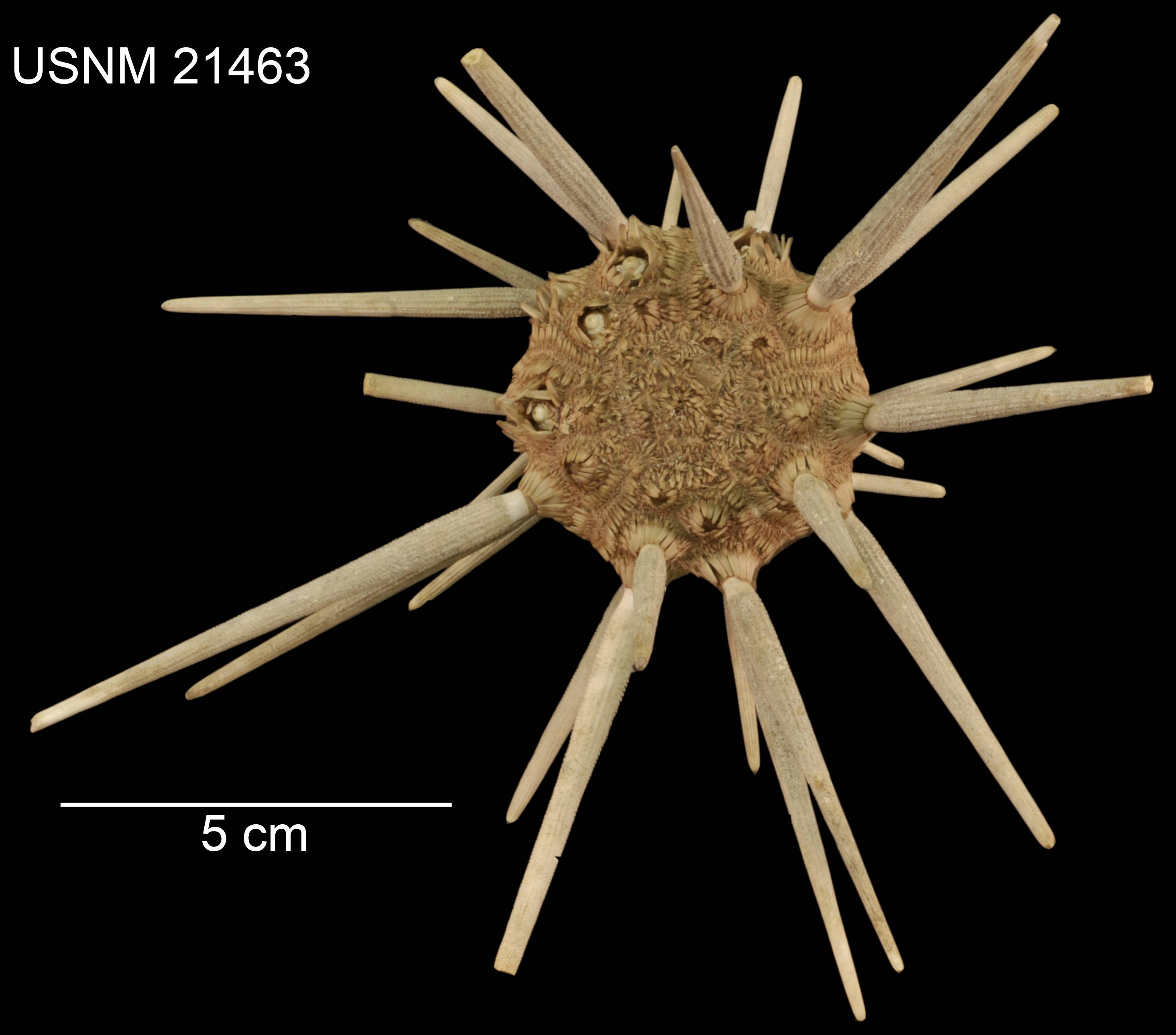 PRESERVED_SPECIMEN; Preparations: Dry; Dorocidaris rugosa H.L.Clark, 1907; Individual count: 1; Type status: PARALECTOTYPE; Identified by: Clark, Hubert Lyman; Event date: 18860504T00:00:00Z; Additional description: Dorsal